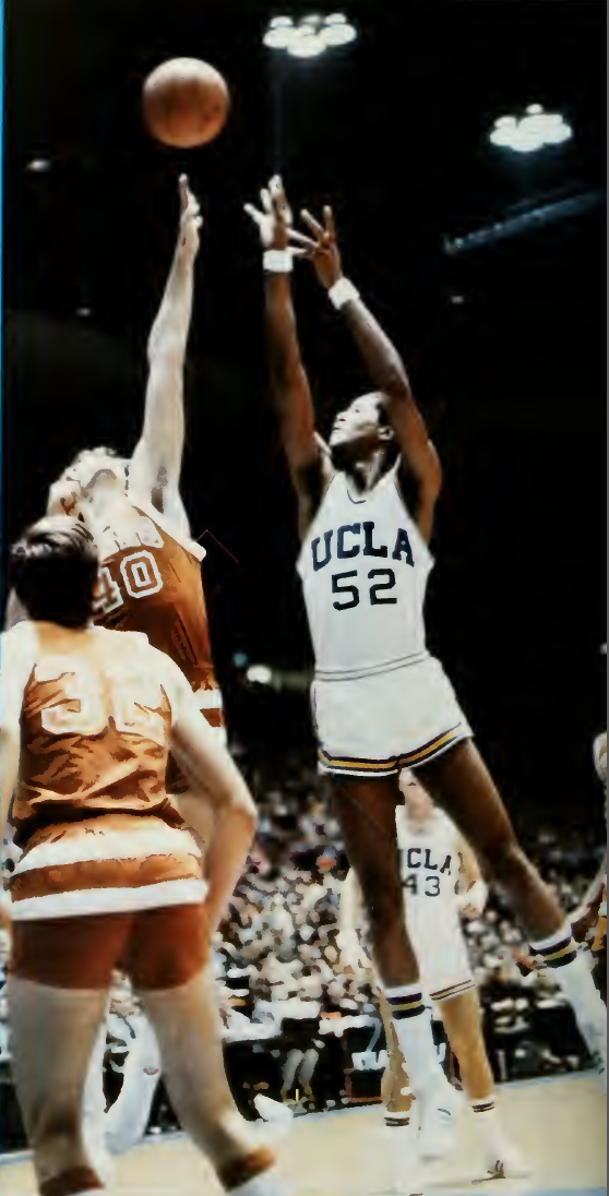 Jamaal Wilkes, then known as Keith Wilkes, of the UCLA Bruins in 1971–72